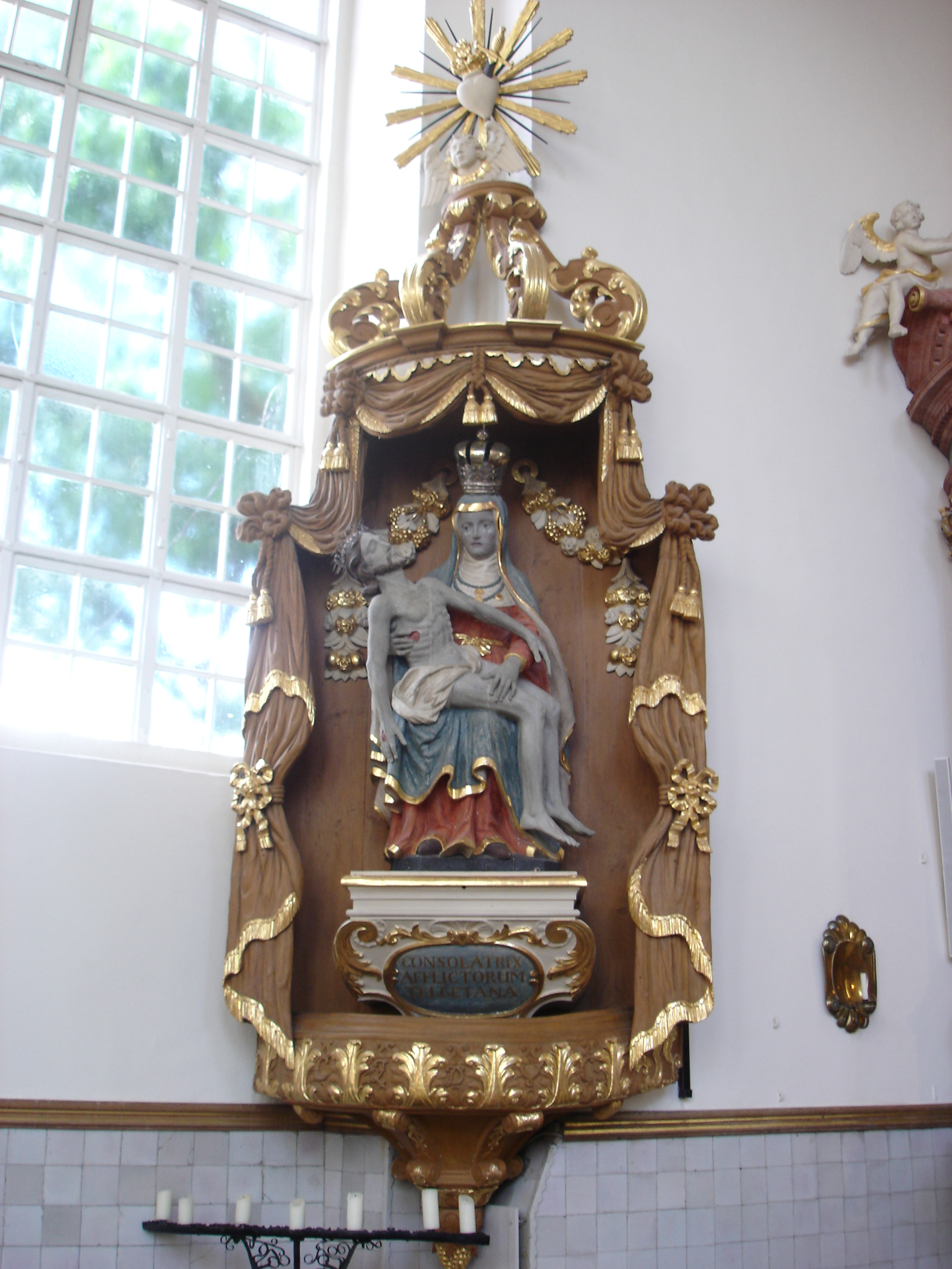 Gymnasial church in Meppen, Pieta